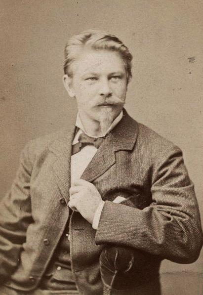 Fredrik Svenonius' portrait